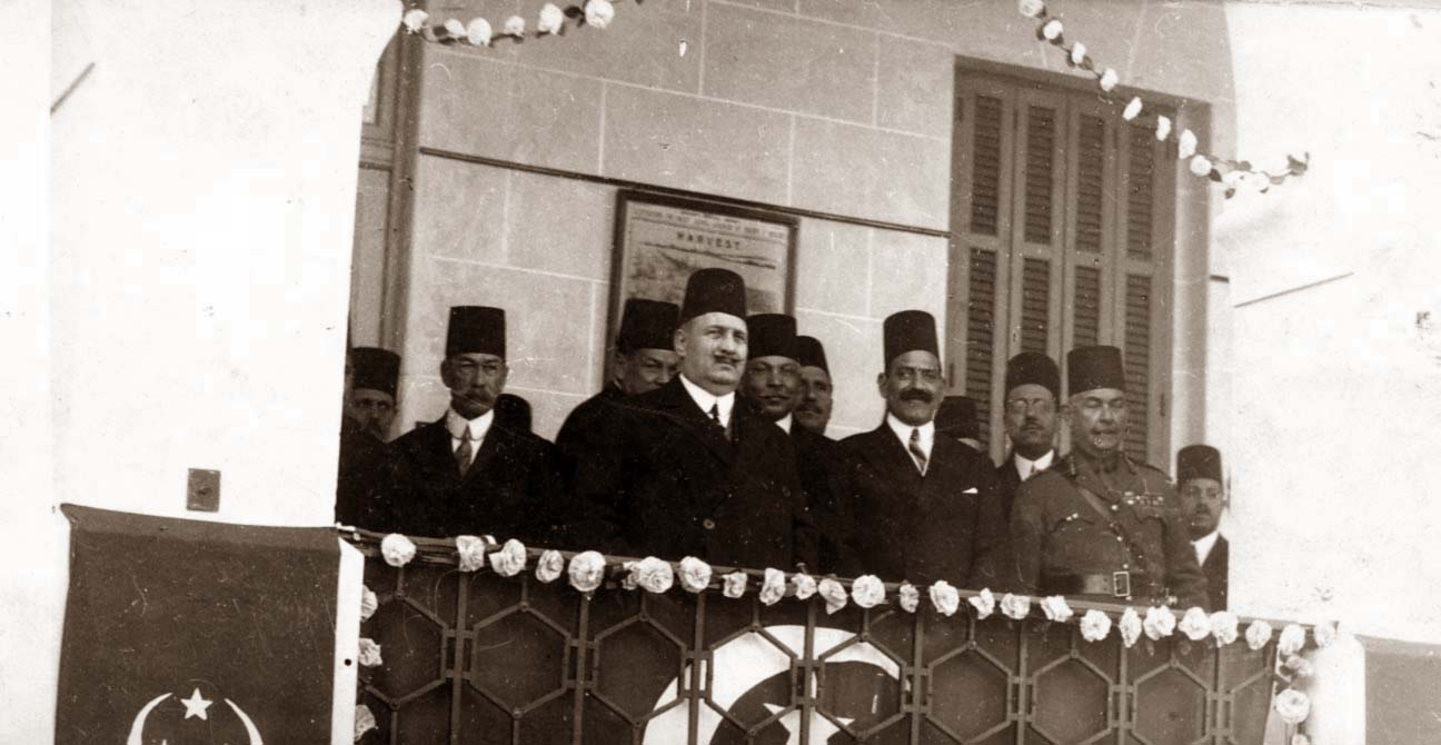 King Fouad I of Egypt with Mustafa el-Nahhas Pasha during a visit to the Khedive Isma'il School in 1928.